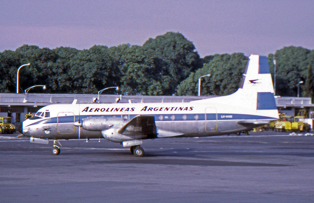 Hawker Siddeley 748 Series 1 LV-HHE of Aerolineas Argentinas at Buenos Aeroparque in 1972.